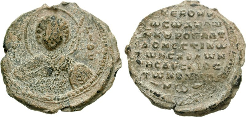 John Comnenus. Curopalates and domesticos of the Scholai of the Occident, 1057-1067. PB Seal (34mm, 22.17 g, 12h). [O]/GE/w/[R] down left field; G/I/O/C down right field; half-length facing bust of St. George, wearing military outfit, holding spear in right hand, shield on left arm / KE ROHQ,/[T]w Cw D(OY)Lw/ [I]w K(OY)ROPAL,T,/S DOMECTIKw/ TwN CXILwN/ THC DVCAIOC/Tw KOMNH/-Nw- in eight lines. BLS I 2681bis; DOCBS I 1.18a; Seyrig -; Vatican -; Orghidan -; Jordanov -. VF, a little rough, gray-brown patina.